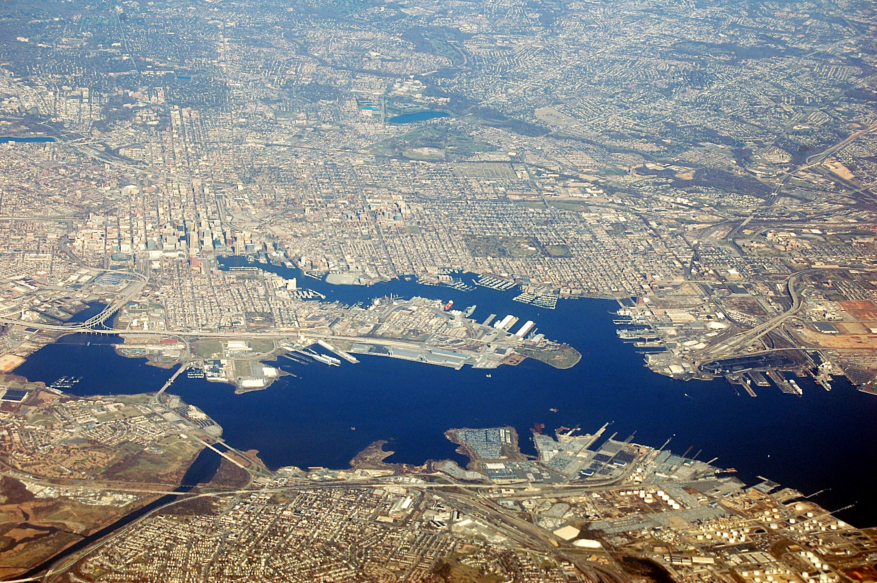 An aerial view of Baltimore, Maryland, looking north. At left, one can see two stadiums just southwest of the downtown highrises. The top one is Camden Yards, home of the Baltimore Orioles and the bottom one is M&T Bank Stadium, home of the Ravens. The large 'T' intersection between two highways below these is that of I-395 and I-95. I-95 travels east-west near the seaport and under the Fort McHenry Tunnel center-right and picks up on the other side.